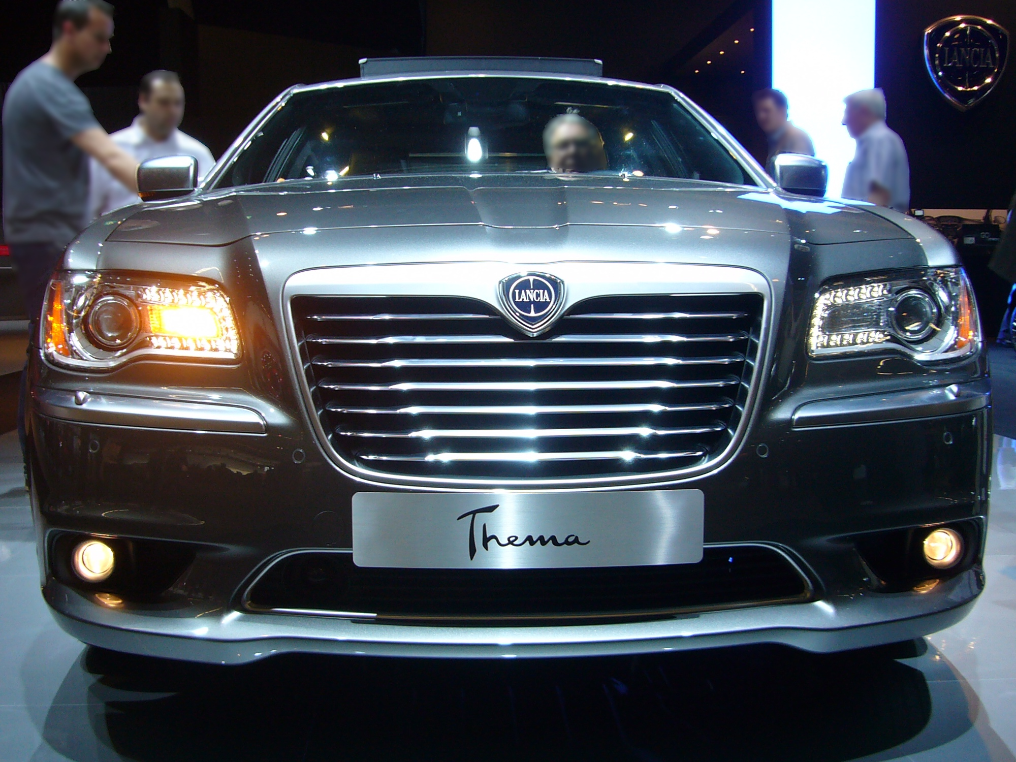 Lancia Thema at AutoRAI Amsterdam 2011